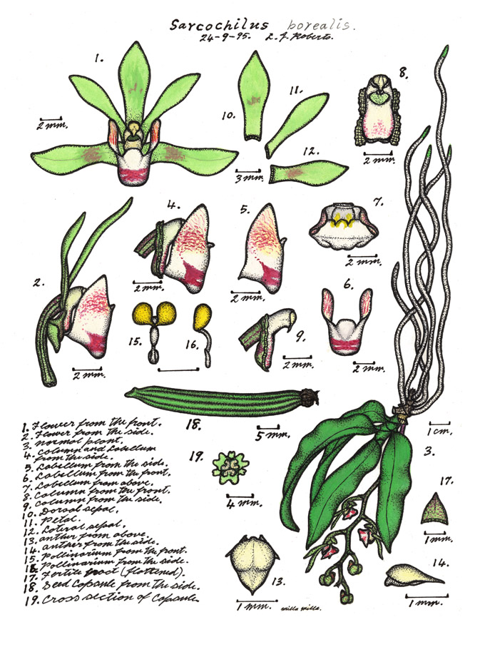 This image is one of a series by Lewis Roberts